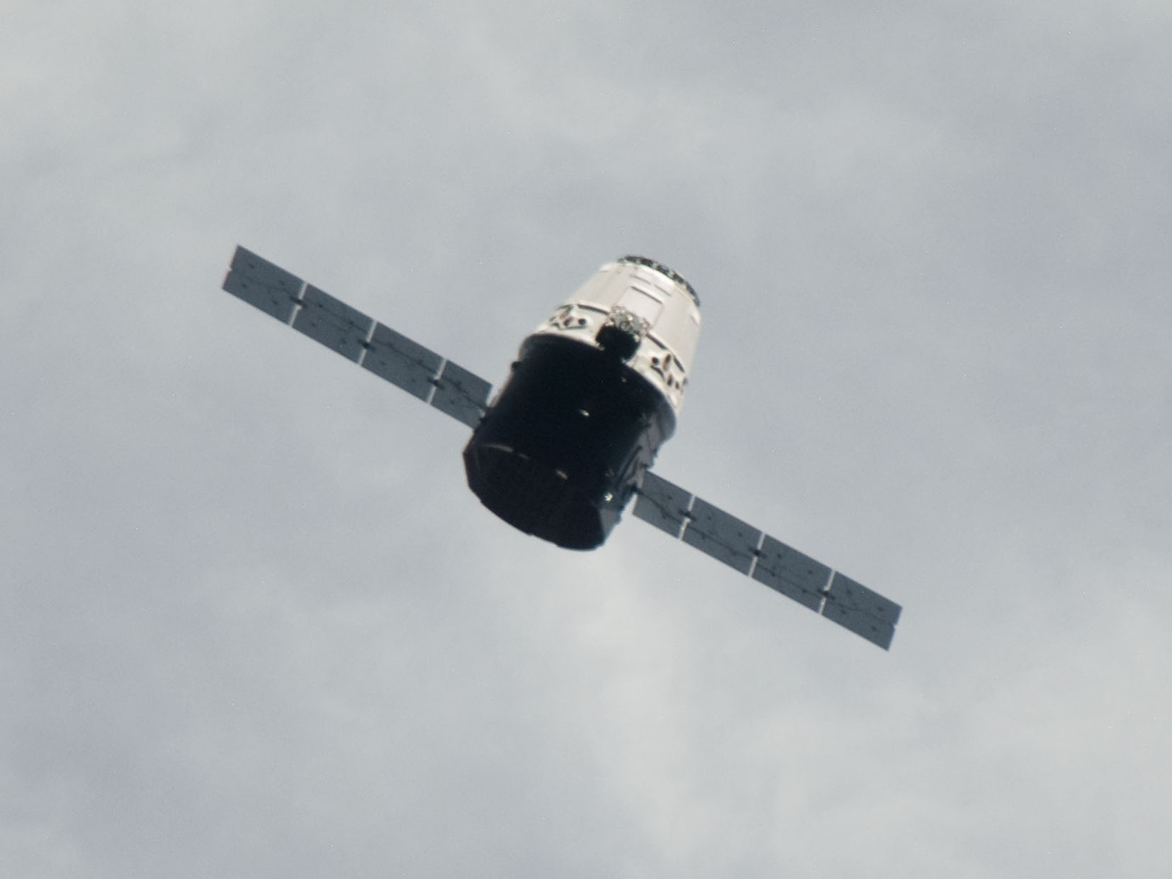 ISS031-E-067328 (24 May 2012) --- The SpaceX Dragon commercial cargo craft approaches the International Space Station on May 24, 2012 for a series of tests to clear it for its final rendezvous and grapple on May 25. At 3:58 a.m. (EDT), Dragon performed a height adjust burn to bring it to a path 2.4 kilometers below the station. During this "fly-under," Dragon established UHF communication with the station using its Commercial Orbital Transportation Services (COTS) Ultra-high frequency Communication Unit (CUCU). Dragon performed a test of its Relative GPS system, which uses the relative positions of the spacecraft to the space station to determine its location. On May 25, Expedition 31 Flight Engineers Don Pettit and Andre Kuipers will use the Canadarm2 robotic arm to grapple the supply ship about 8:06 a.m., with the berthing to the Earth-facing side of the station's Harmony node following about 11:20 a.m. Dragon is scheduled to spend about a week docked with the station before returning to Earth on May 31 for retrieval. Image was taken with a very large handheld telescopic lens by an astronaut aboard ISS.